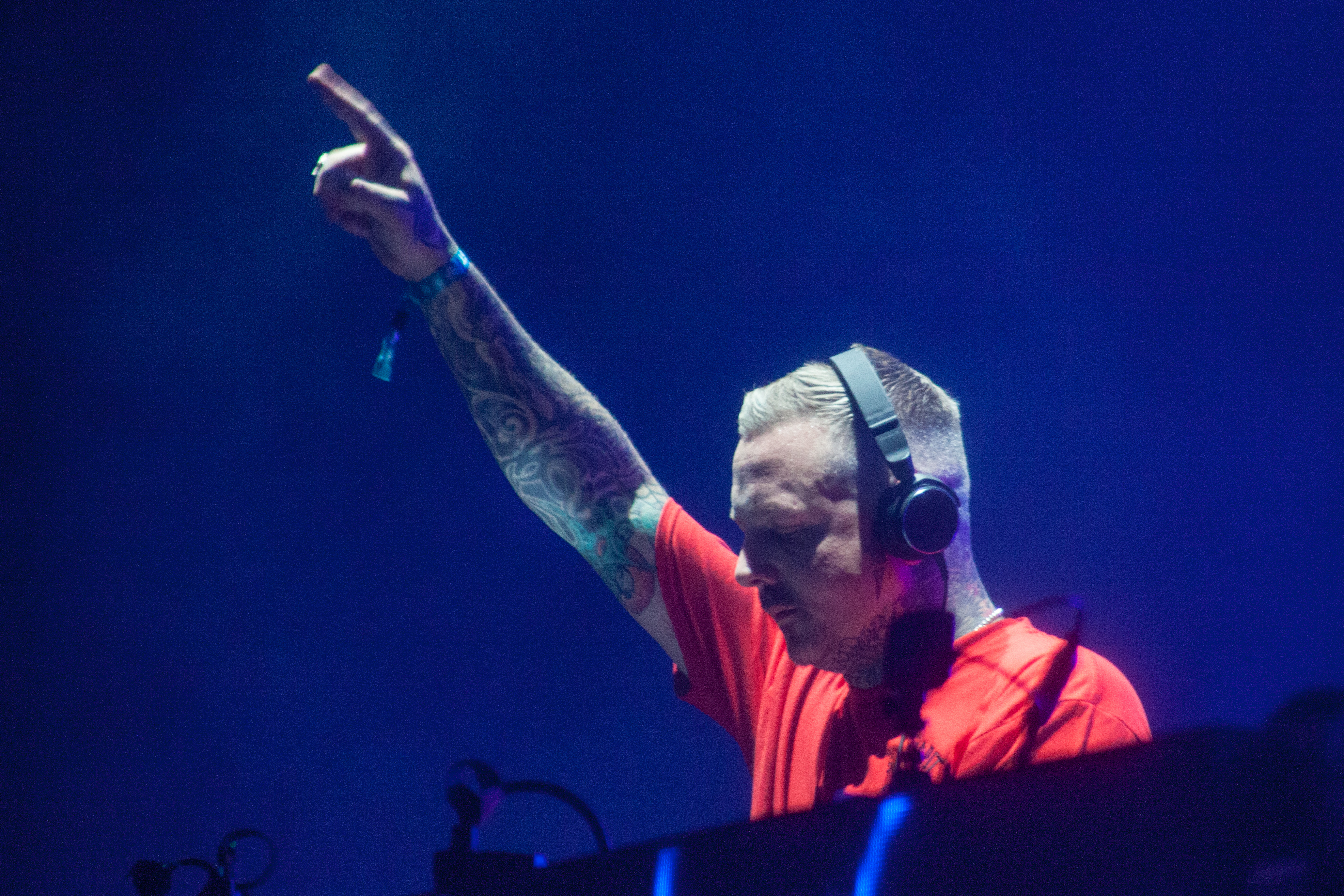 British DJ Audio (Gareth Greenall) performing at electronic music fetival Beats for Love 2019 (Ostrava, Czechia) on 6 July 2019